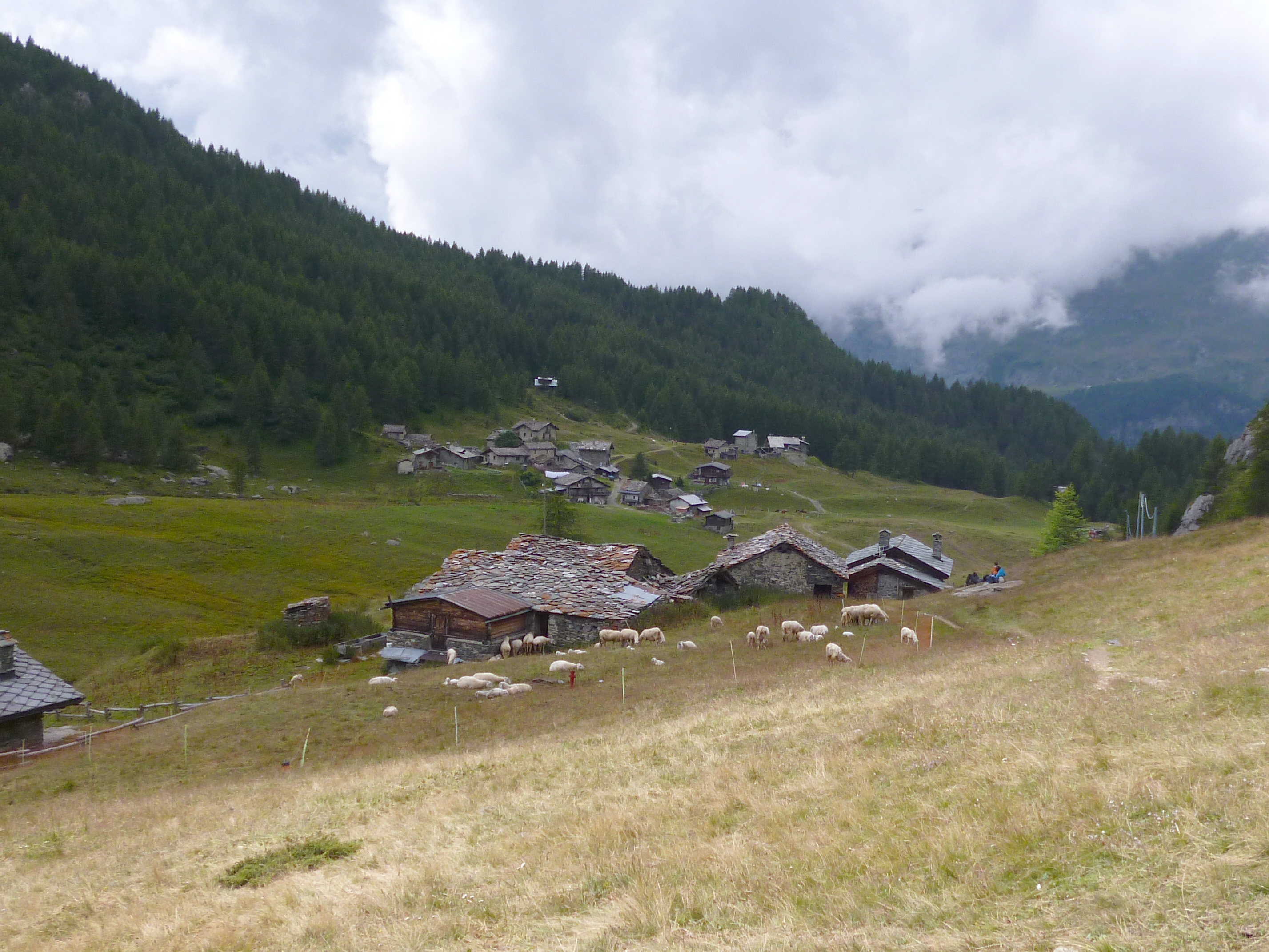 Cheneil, seen from north east